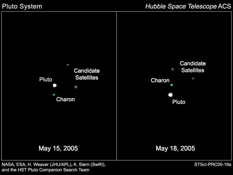 Discovery images of Plutonian satellites P1 and P2. "The enhanced-color images of Pluto (the brightest object) and Charon (to the right of Pluto) were constructed by combining short exposure images taken in filters near 475 nanometers (blue) and 555 nanometers (green-yellow). The images of the new satellites were made from longer exposures taken in a single filter centered near 606 nanometers (yellow), so no color information is available for them."